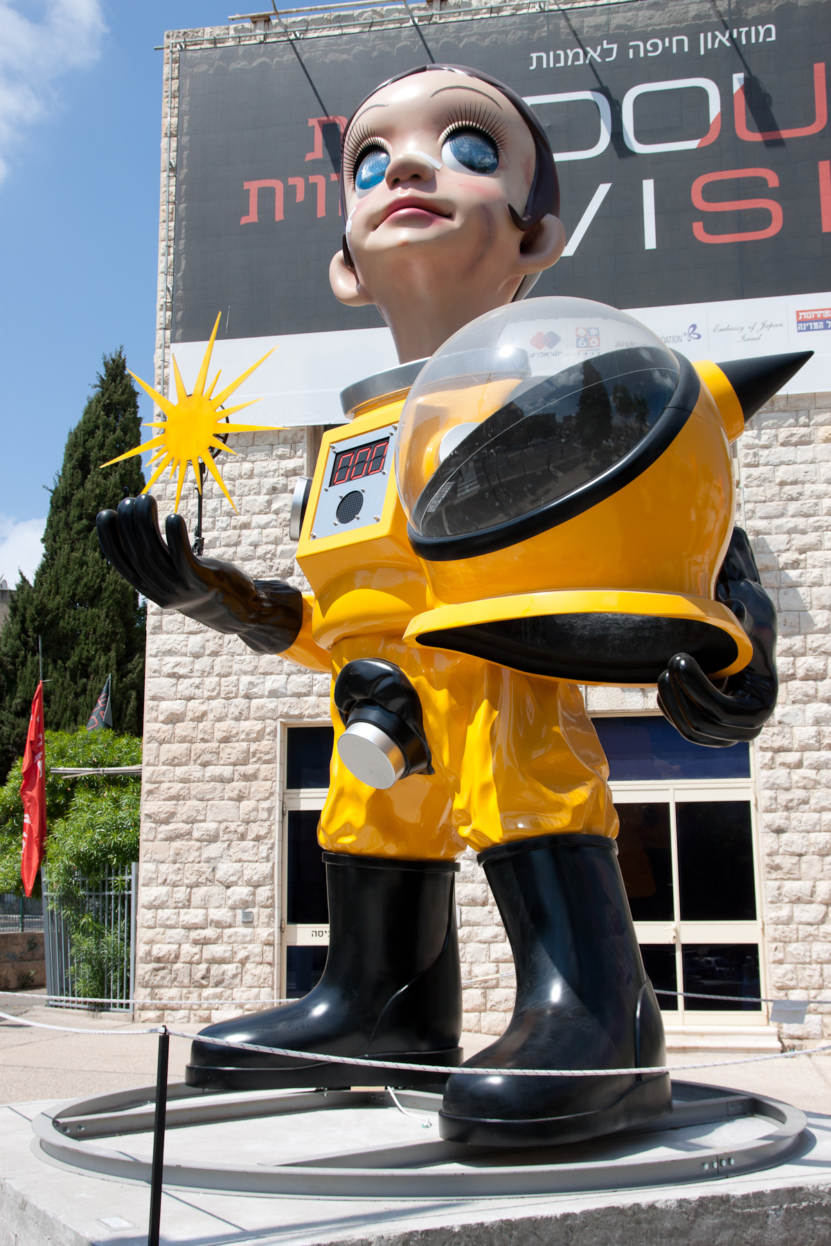 Kenji Yanobe's "Sun Child" outside the Haifa Museum of Art, part of the "Double Vision" exhibition of contemporary Japanese art.